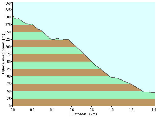 Height profile climbing the Bjørufjellet in Sømna municipality, Norway